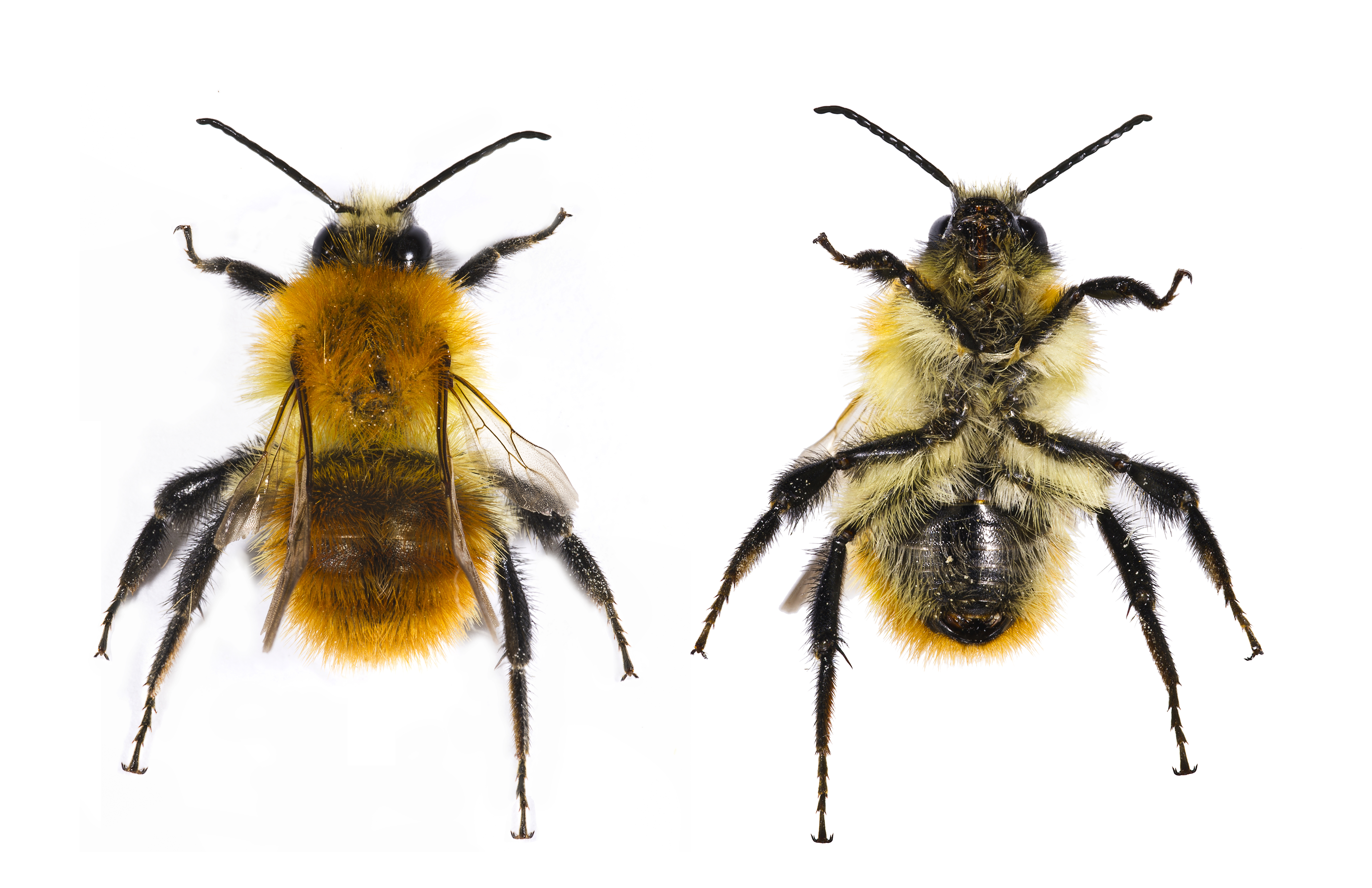 Common carder bee (Bombus pascuorum Scapoli 1763). Bumblebees (also spelled bumble bee, also known as humblebee) are flying insects of the genus Bombus in the family Apidae. Dorsal and ventral view of the same specimen. Male specimen: 13 items per antenna and 7 by abdomen (12 and 6 for females) Locality : Fronton, Midi-Pyrénées, France Size (antennae and legs off) : 1.7 cm